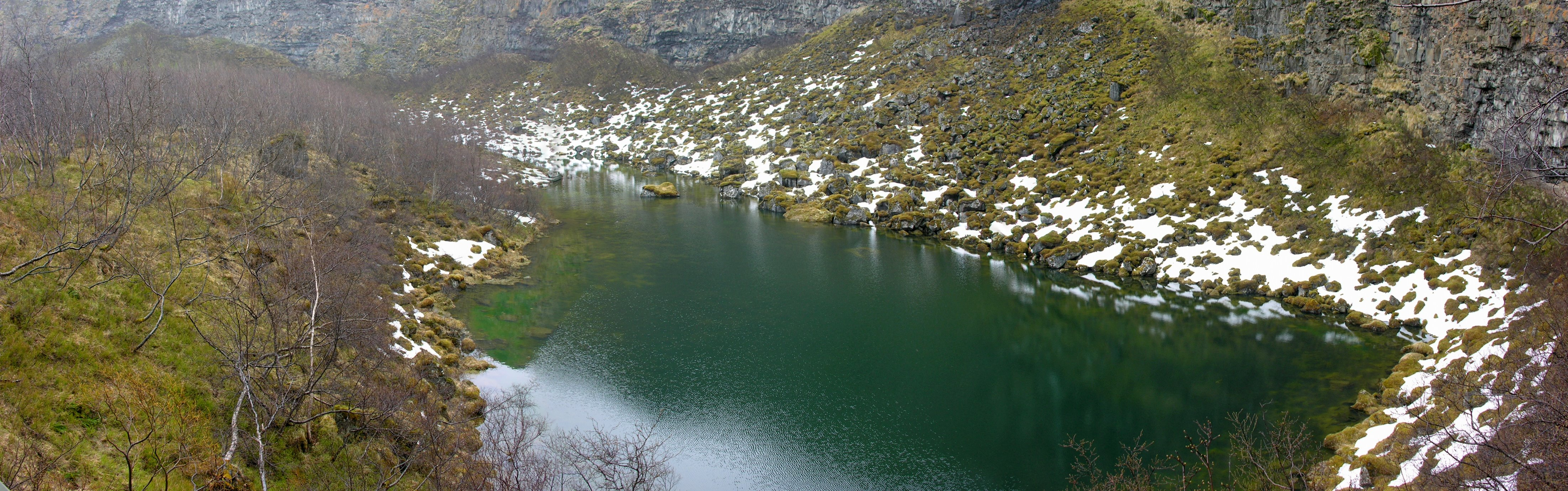 Botnstjörn at the End of Ásbyrgi